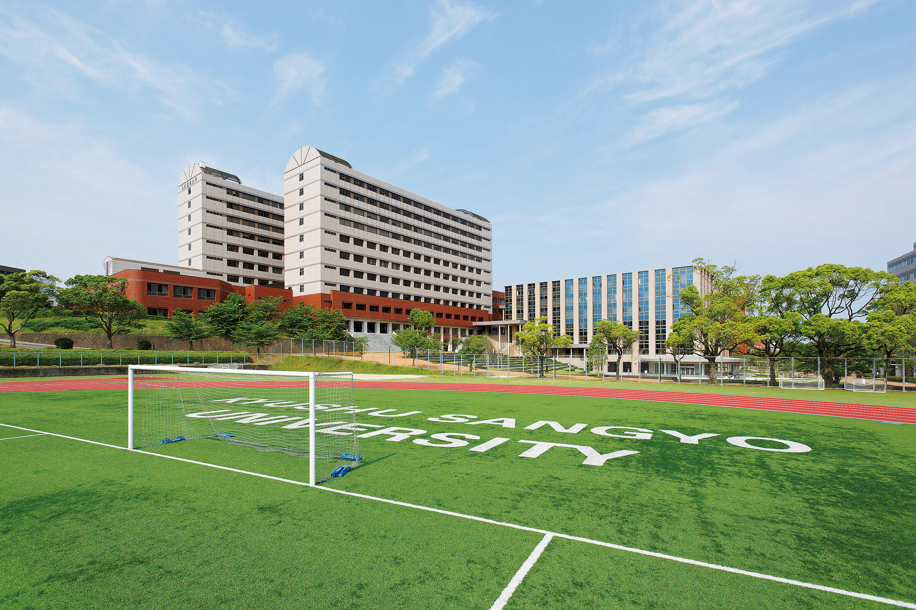 Campus Photos